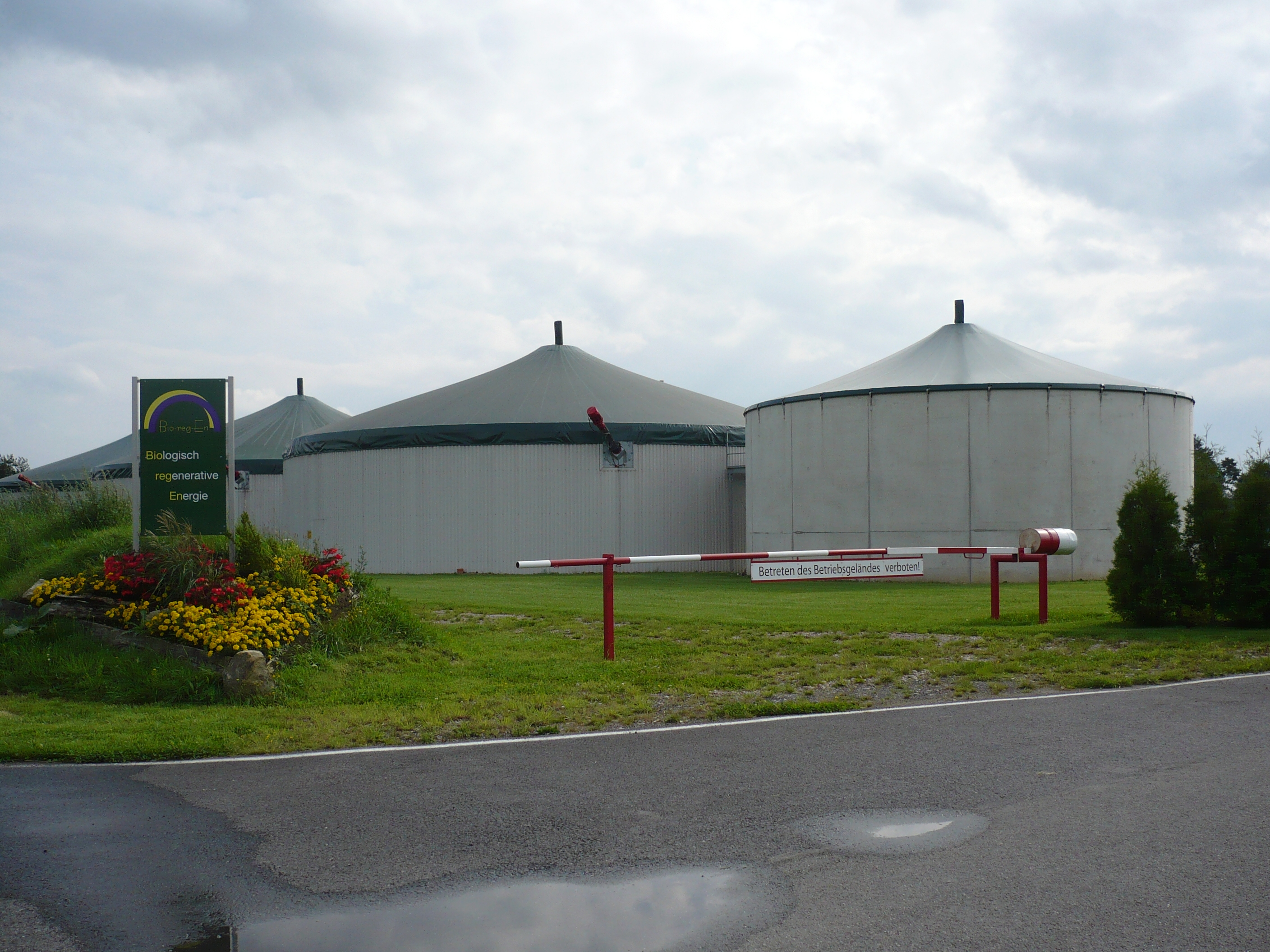 Ladbergen Telgter Damm. Biogasanlage (anaerobic digestion plant).